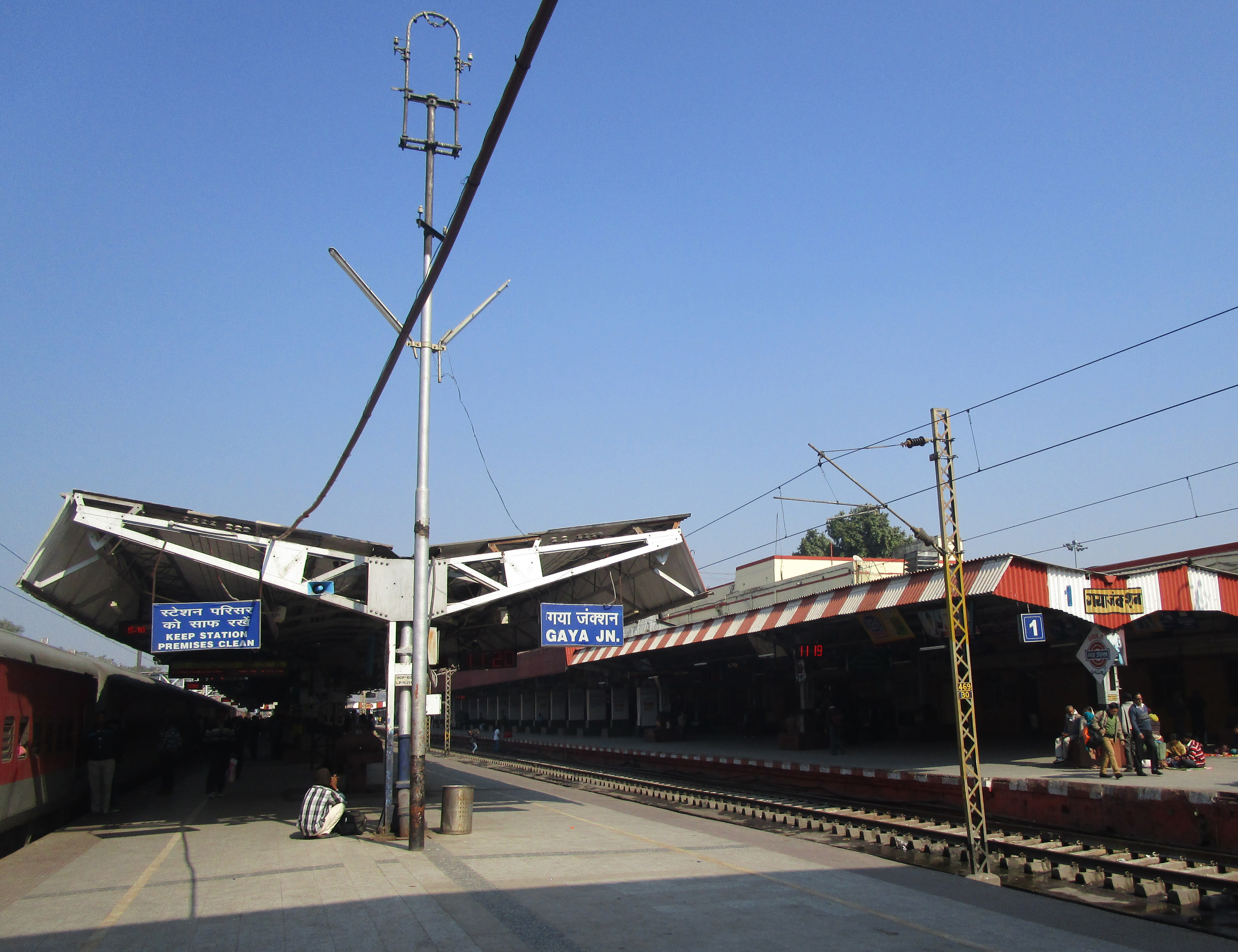 Gaya Junction platform no. 1